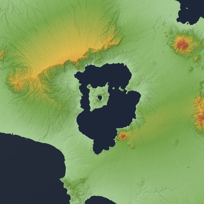 Taal Caldera in Luzon, Philippines.